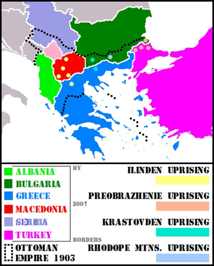 A map of the Balkans showing hots spots for uprisings of Ilinden, Preobrazhenie and Krastovden and also insurrectionary actions in Rhodope Mountains, in Macedonia and Thrace regions respectively.